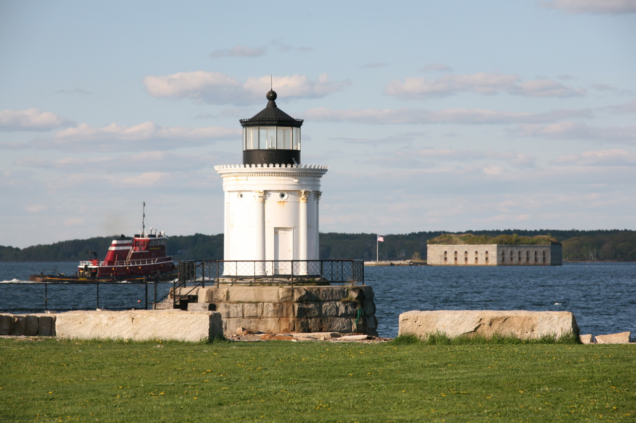 Portland Breakwater Light, South Portland, Maine, USA